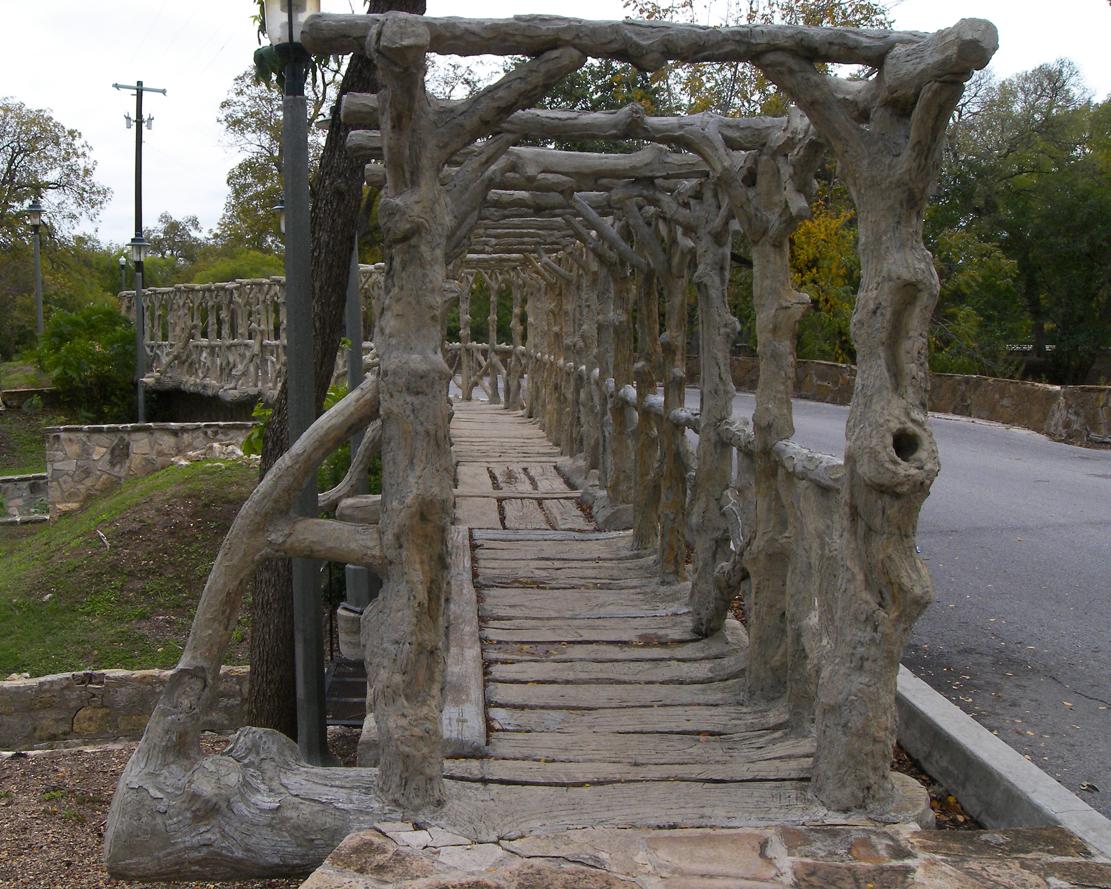 The Dionicio Rodriguez Bridge in Brackenridge Park located in Brackenridge Park, San Antonio, Texas, United States. The site was listed on the National Register of Historic Places on October 22, 2004.